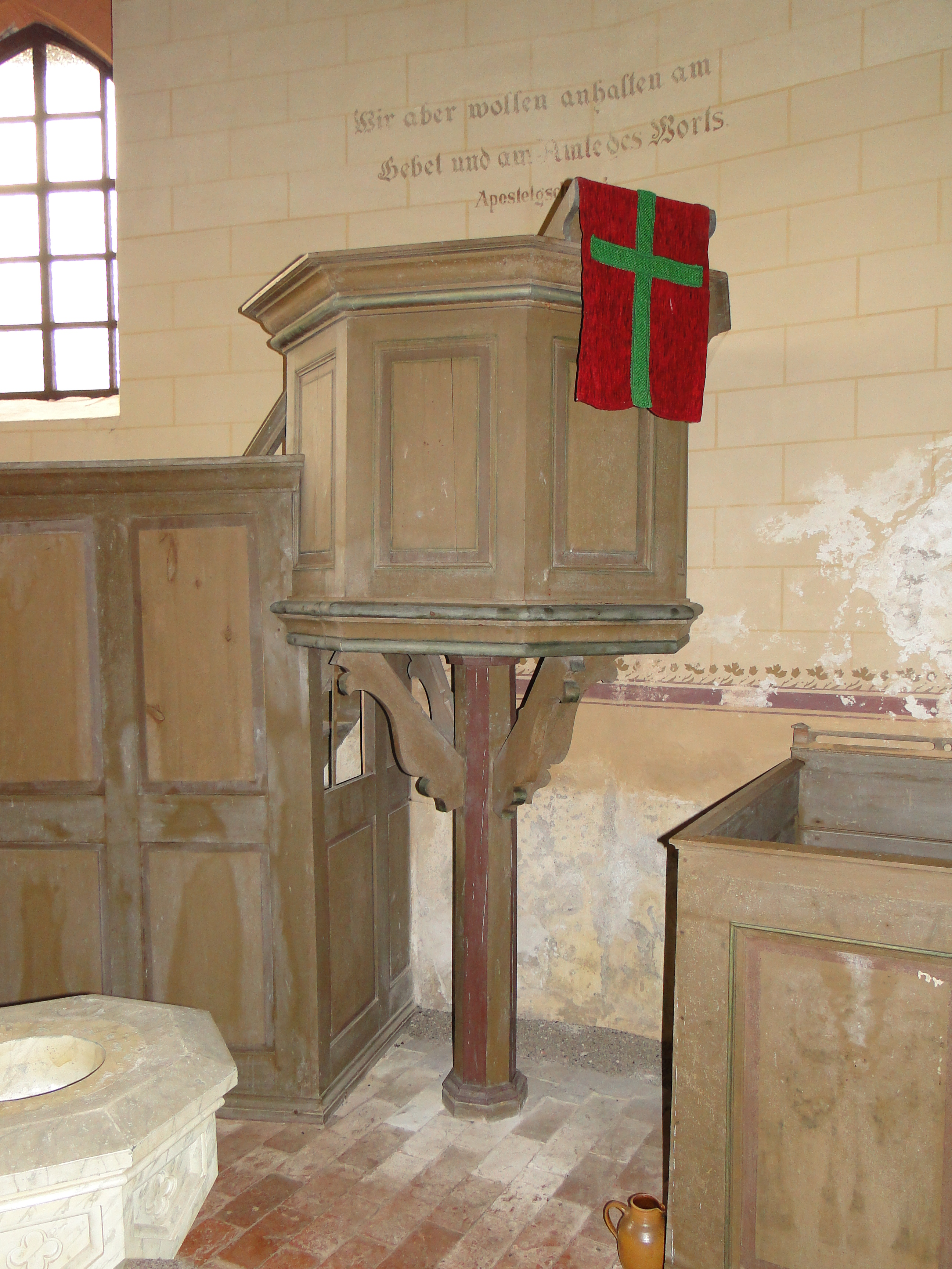 Church in Wessin, district Ludwigslust-Parchim, Mecklenburg-Vorpommern, Germany